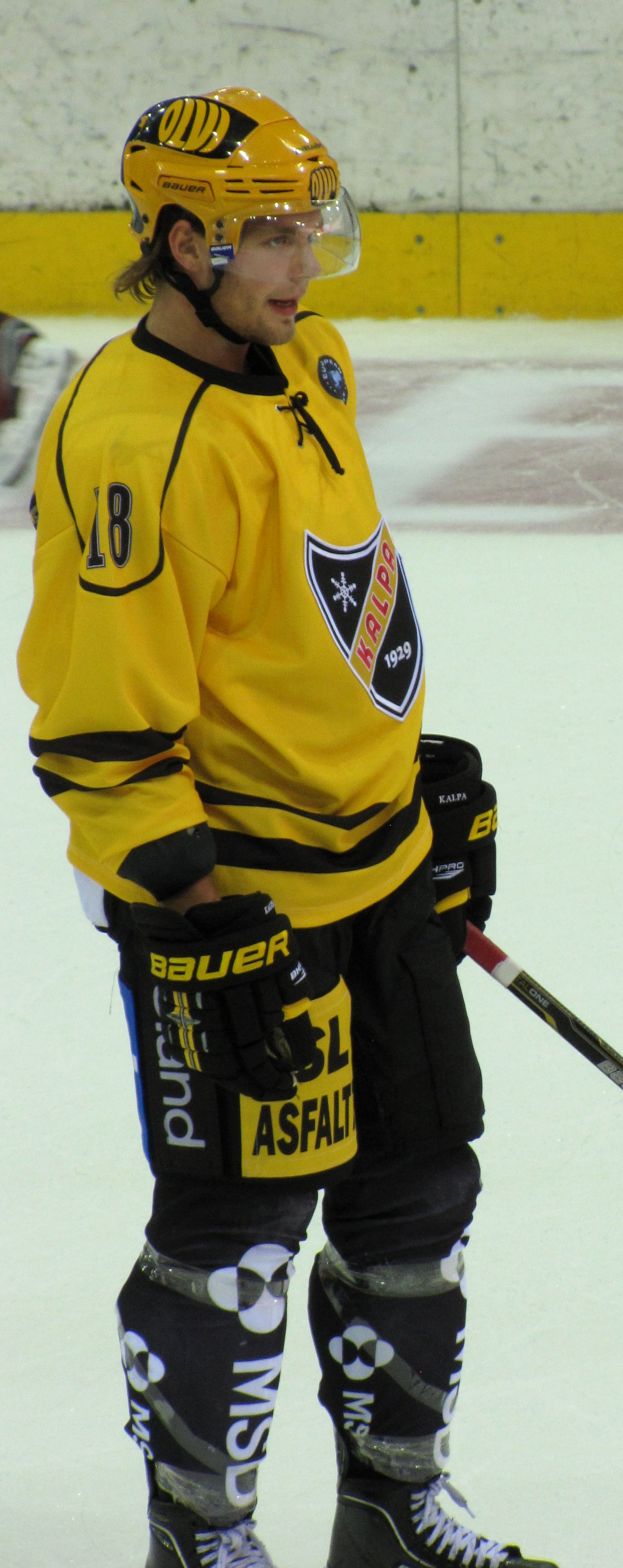 Finnish ice hockey player Iiro Pakarinen playing for KalPa Kuopio against Vienna Capitals in the 2011 European Trophy in Vienna, Austria.